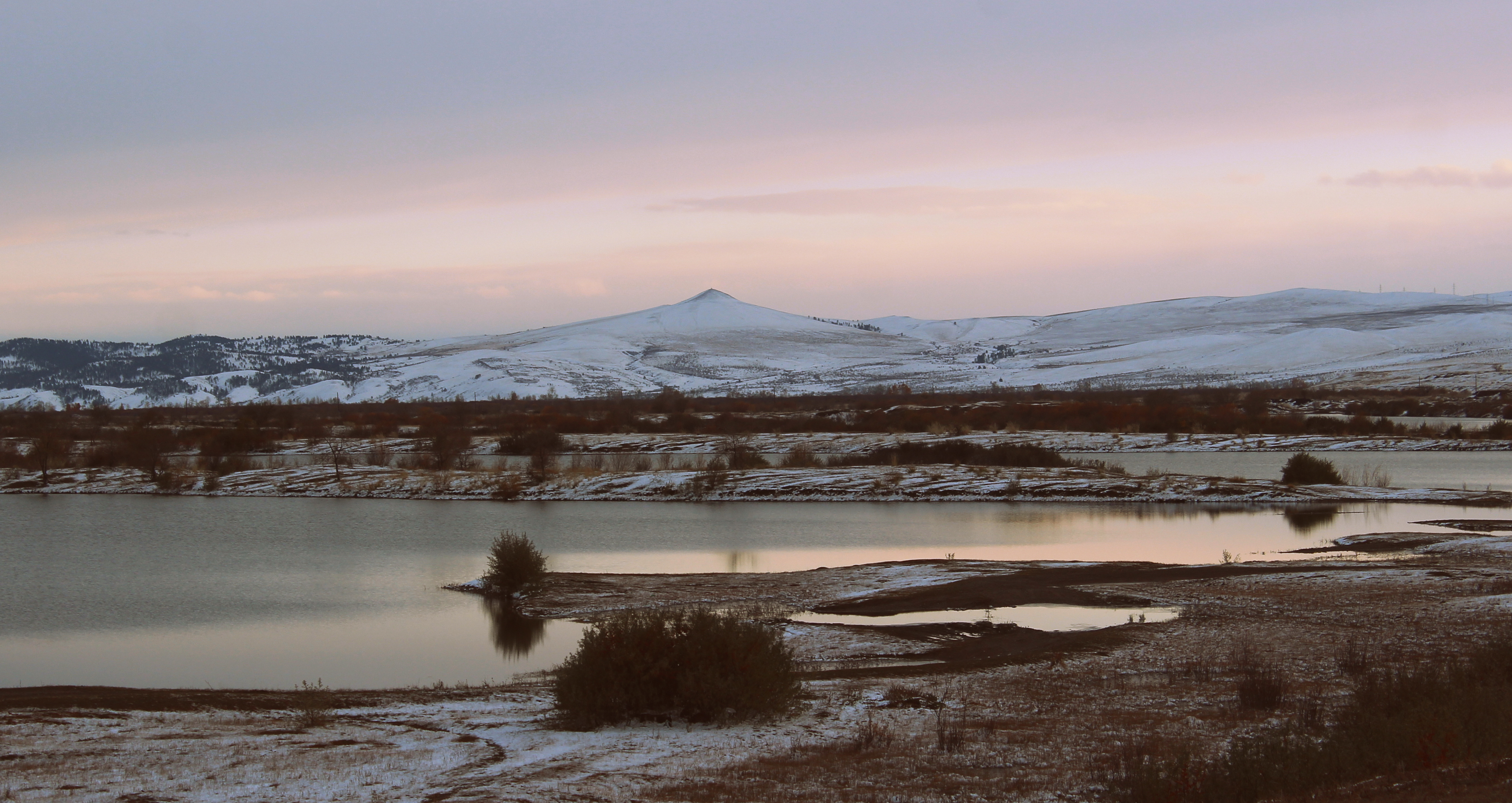 Mount Kharaty - a natural monument and a sacred place. Located in Siberia, in the south of Buryatia, close to the village Zarubino Dzhida district.